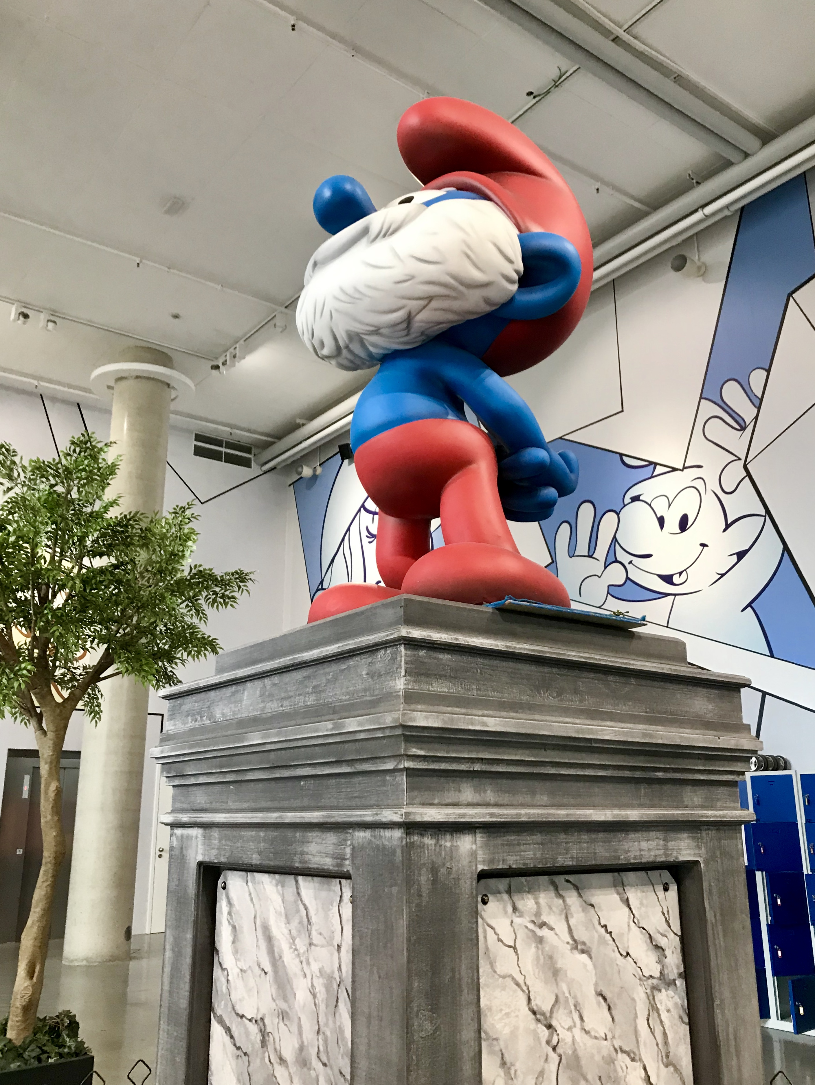 A statue of Grote Smurf at Comics Station Antwerp